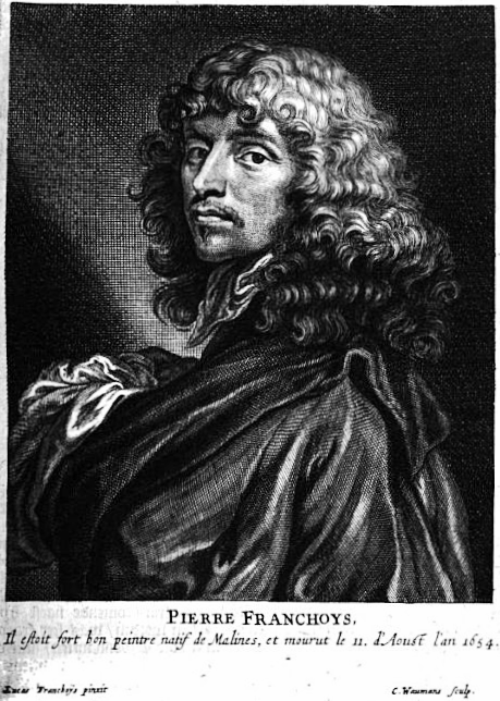 Portrait of Pierre Franchoys in Cornelis de Bie's Gulden Cabinet.